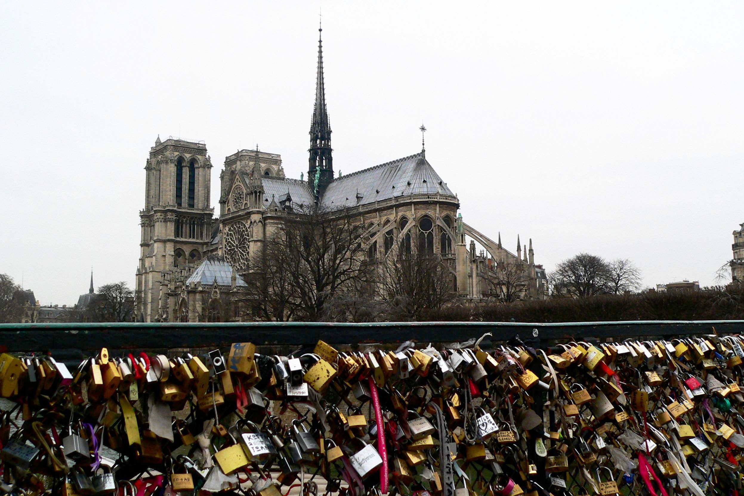 Pont de l'Archevêché showing the padlocks which people have attached. Paris, France.